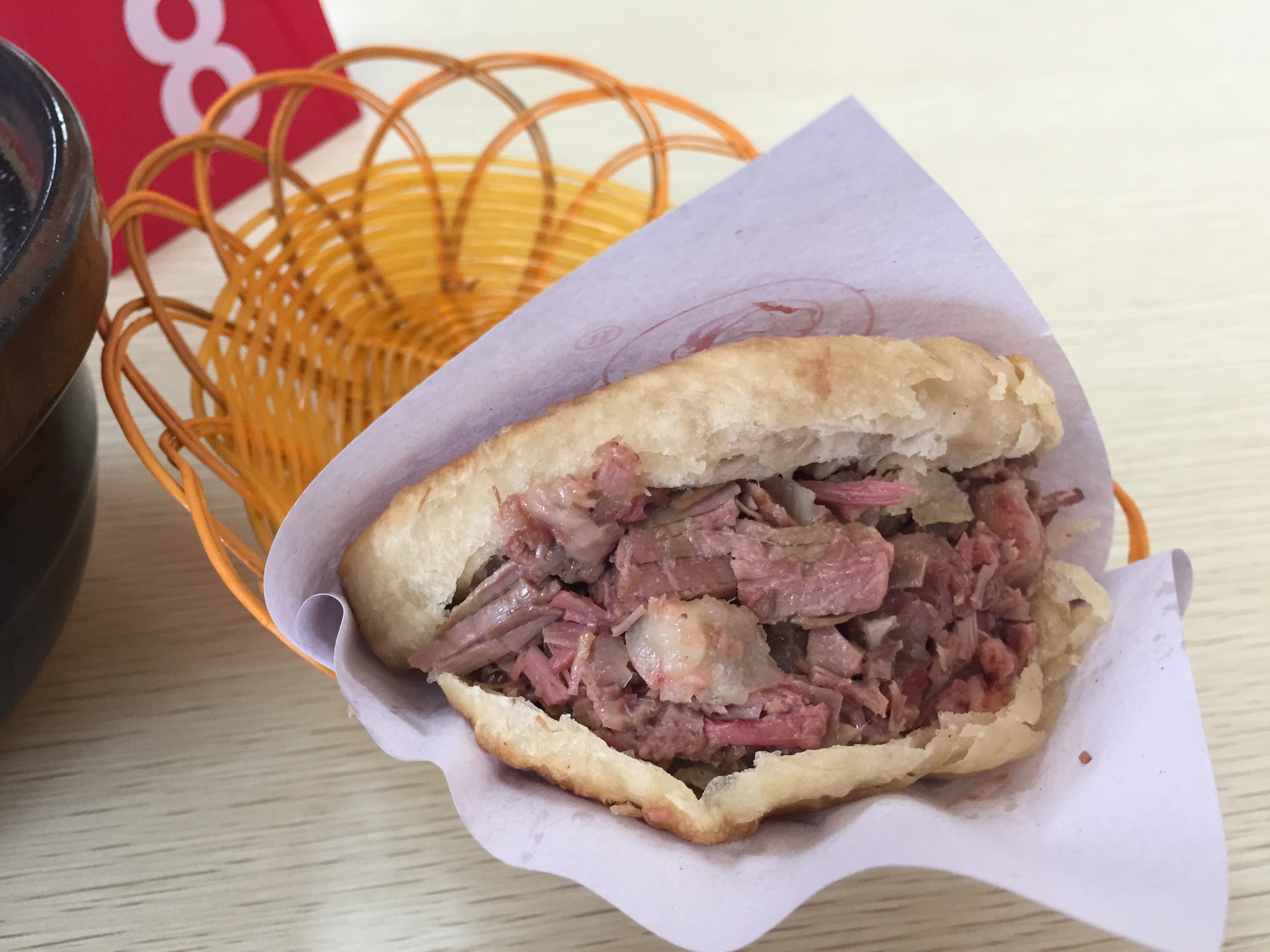 Sold near the Ancient Lotus Pond for 8. Another variant is sold for 10.